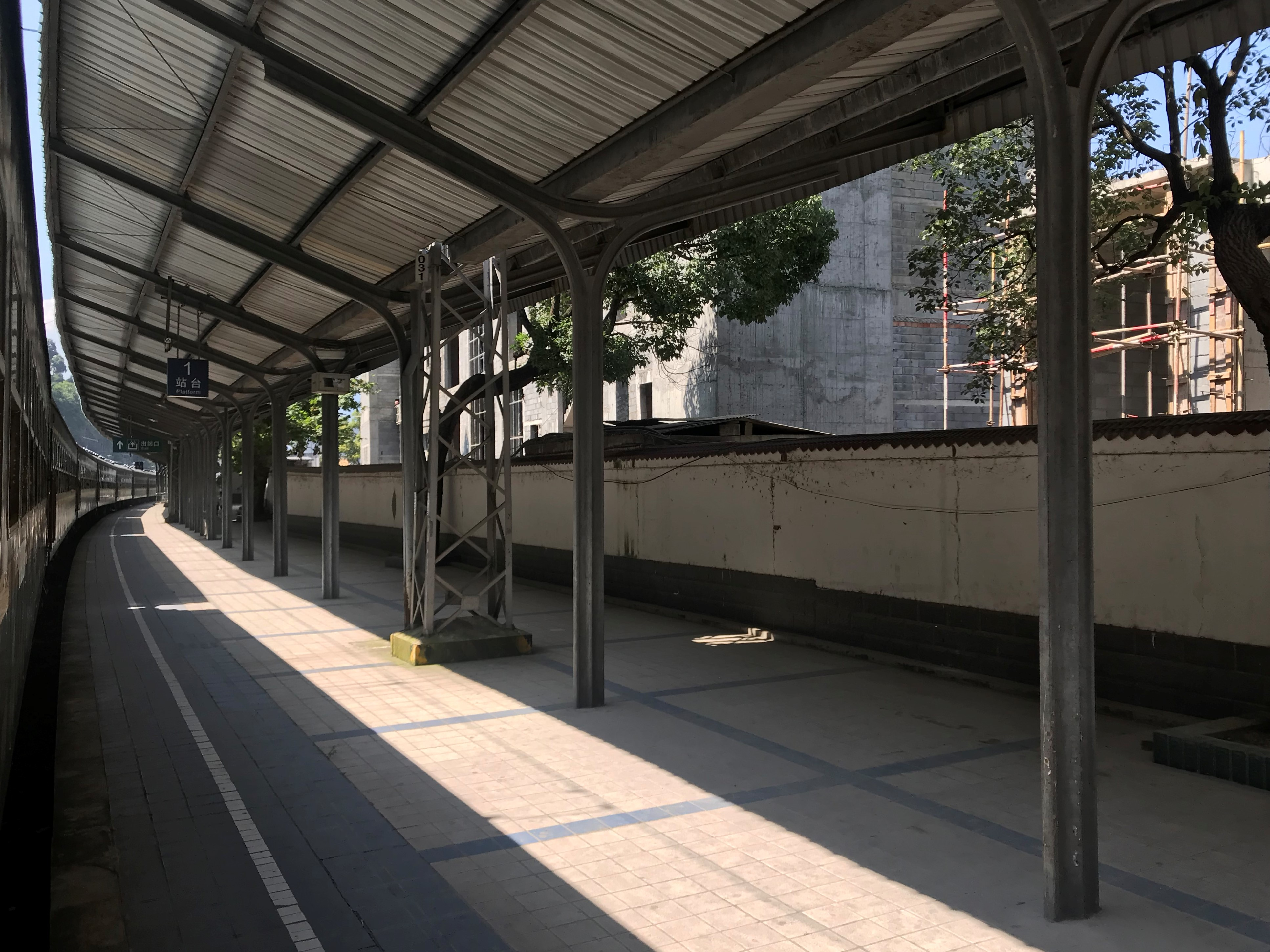 201908 Platform 1 of Tongzi Station (1)